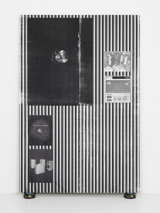 Silkscreen on canvas, DVD spindel, 200 x 145 cm